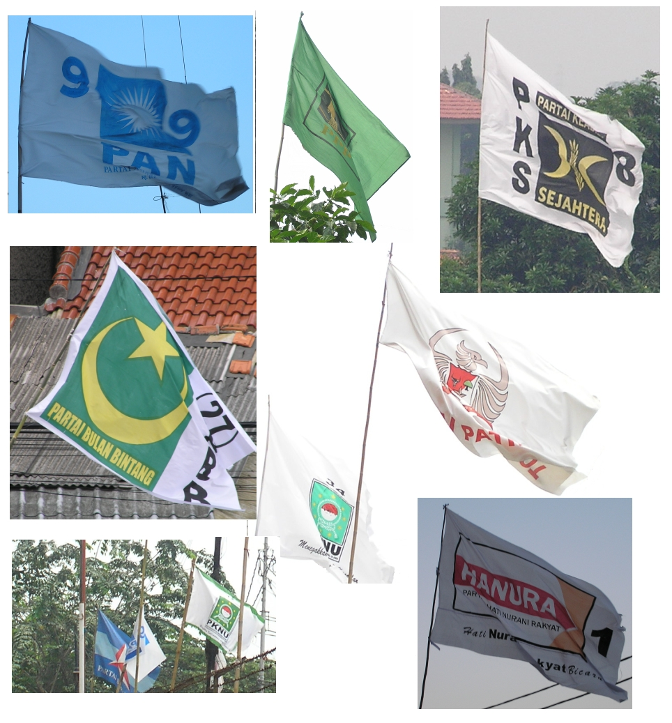 Party flags flying in Jakarta as part of the 2009 election campaign